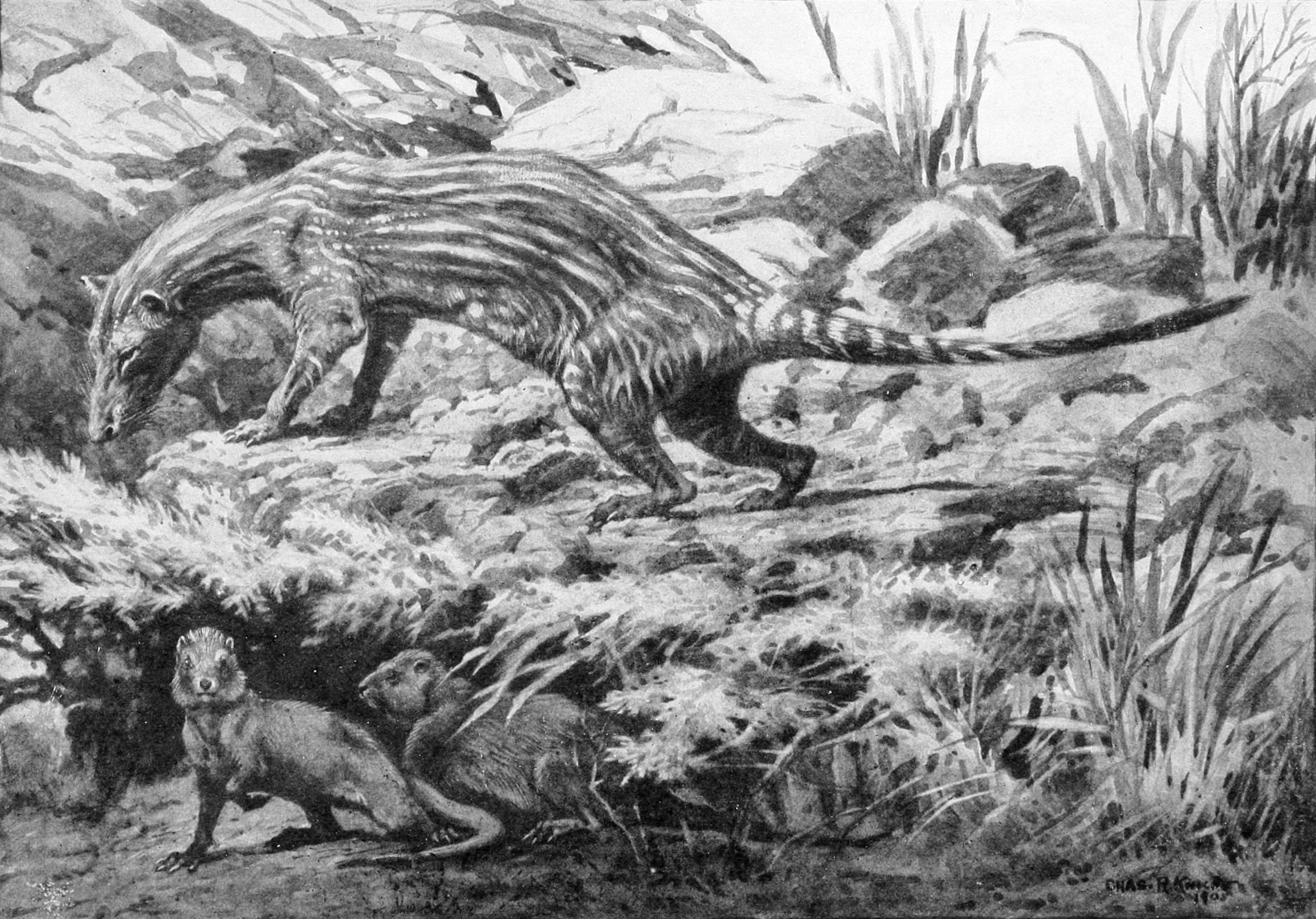 Life restoration of Prothylacinus patagonicus and Interatherium robustum from W.B. Scott's A History of Land Mammals in the Western Hemisphere. New York: The Macmillan Company.